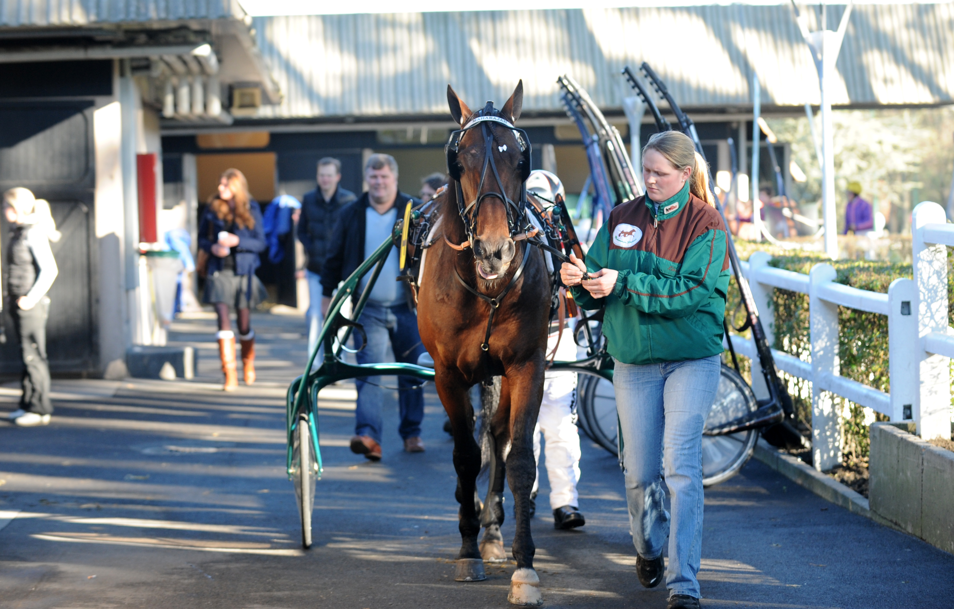 Maharajah and Lisa Skogh at Hippodrome de Vincennes 2011-01-16.